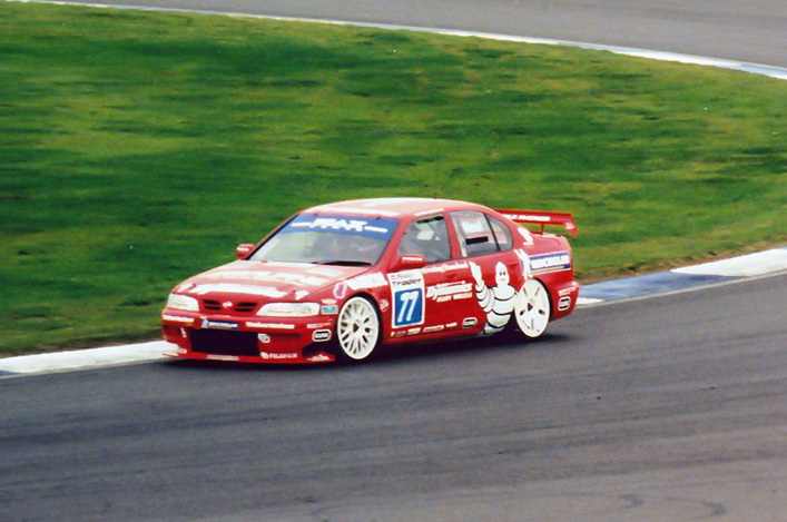 BTCC 1999 Matt Neal's Nissan Primera during qualifying for the final round at Silverstone.